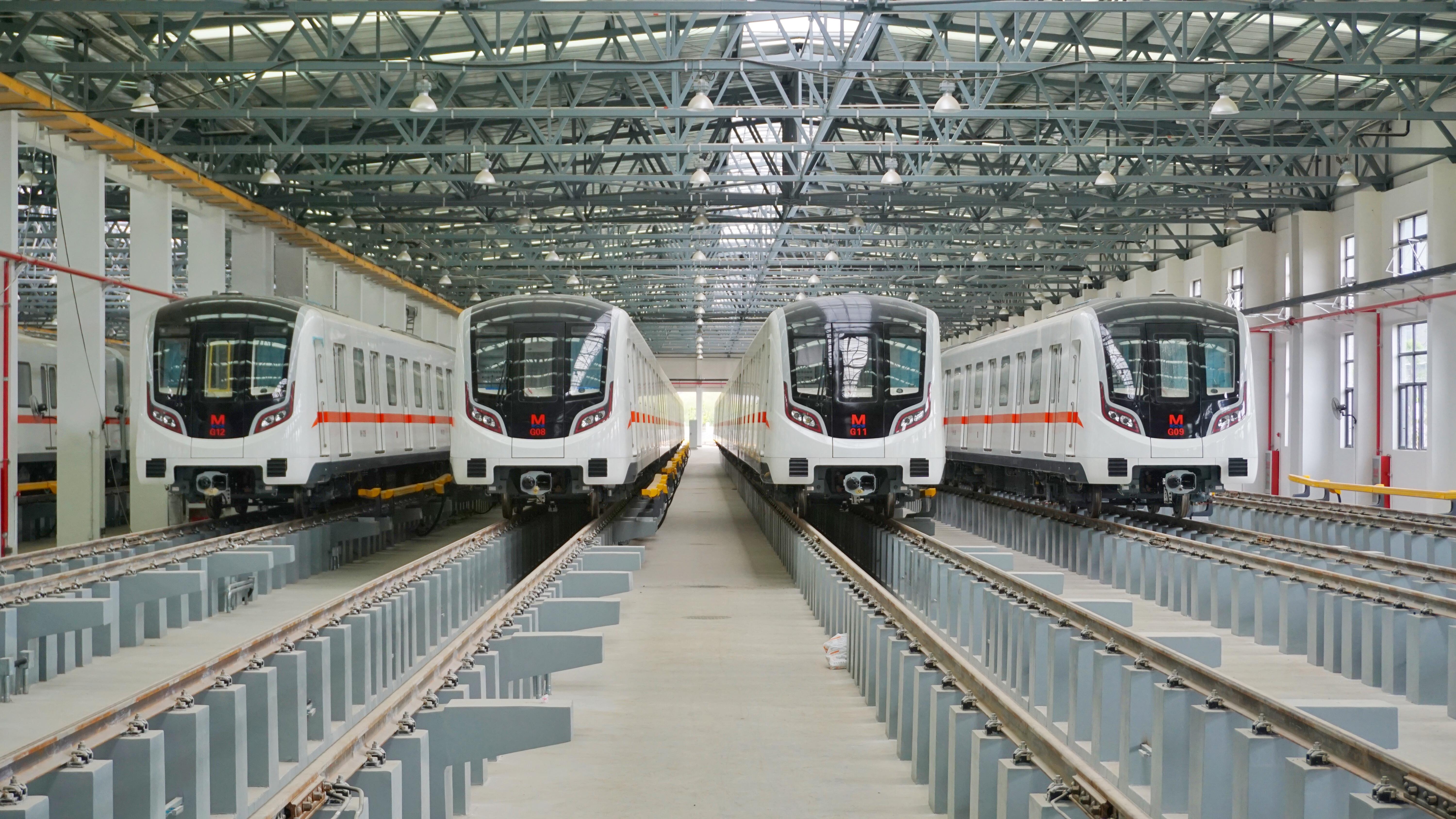 Trains of Wuhan Metro Line 7